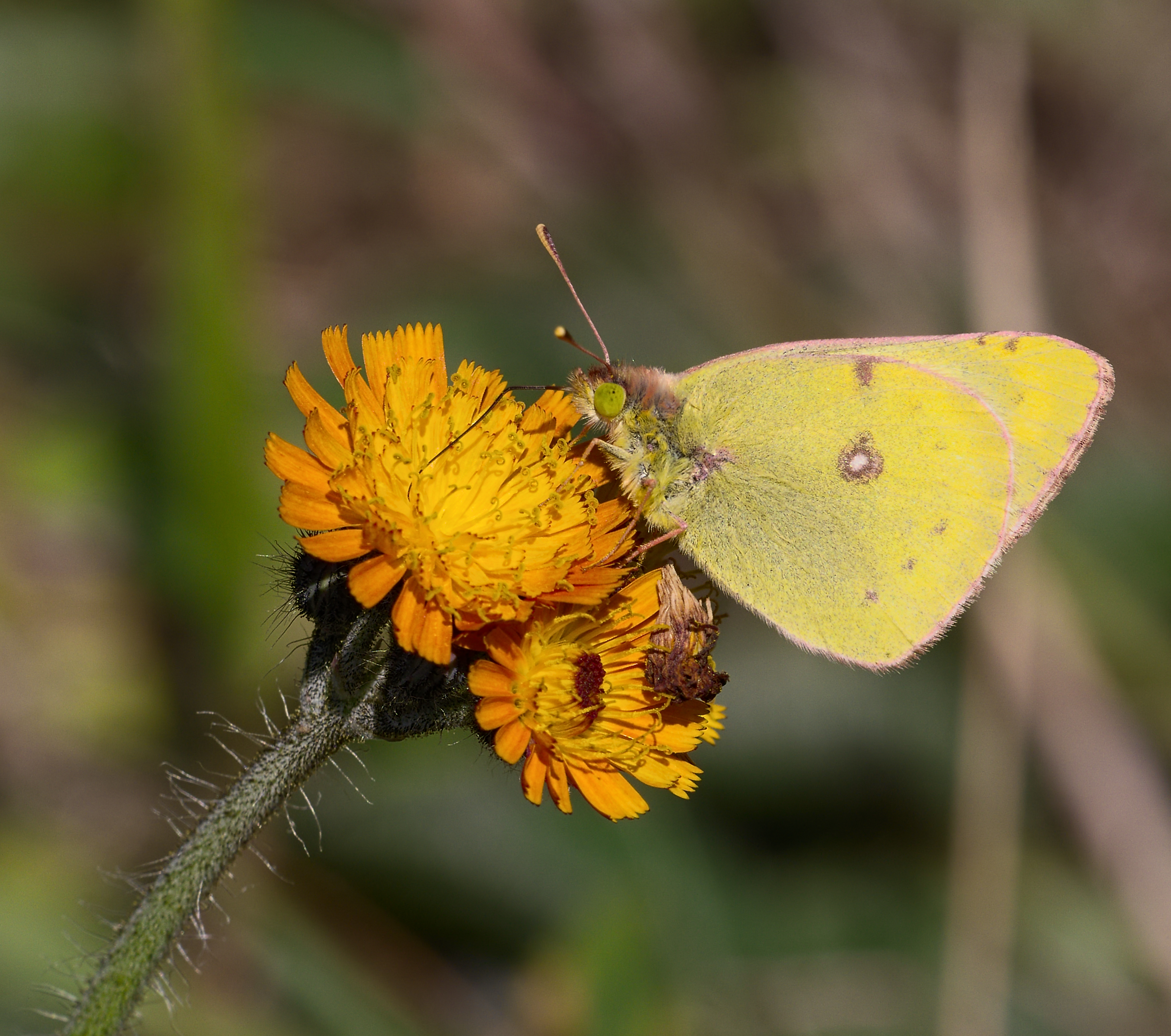 Colias sp., male. Taken in Fürth (Odenwald), Hesse, Germany.